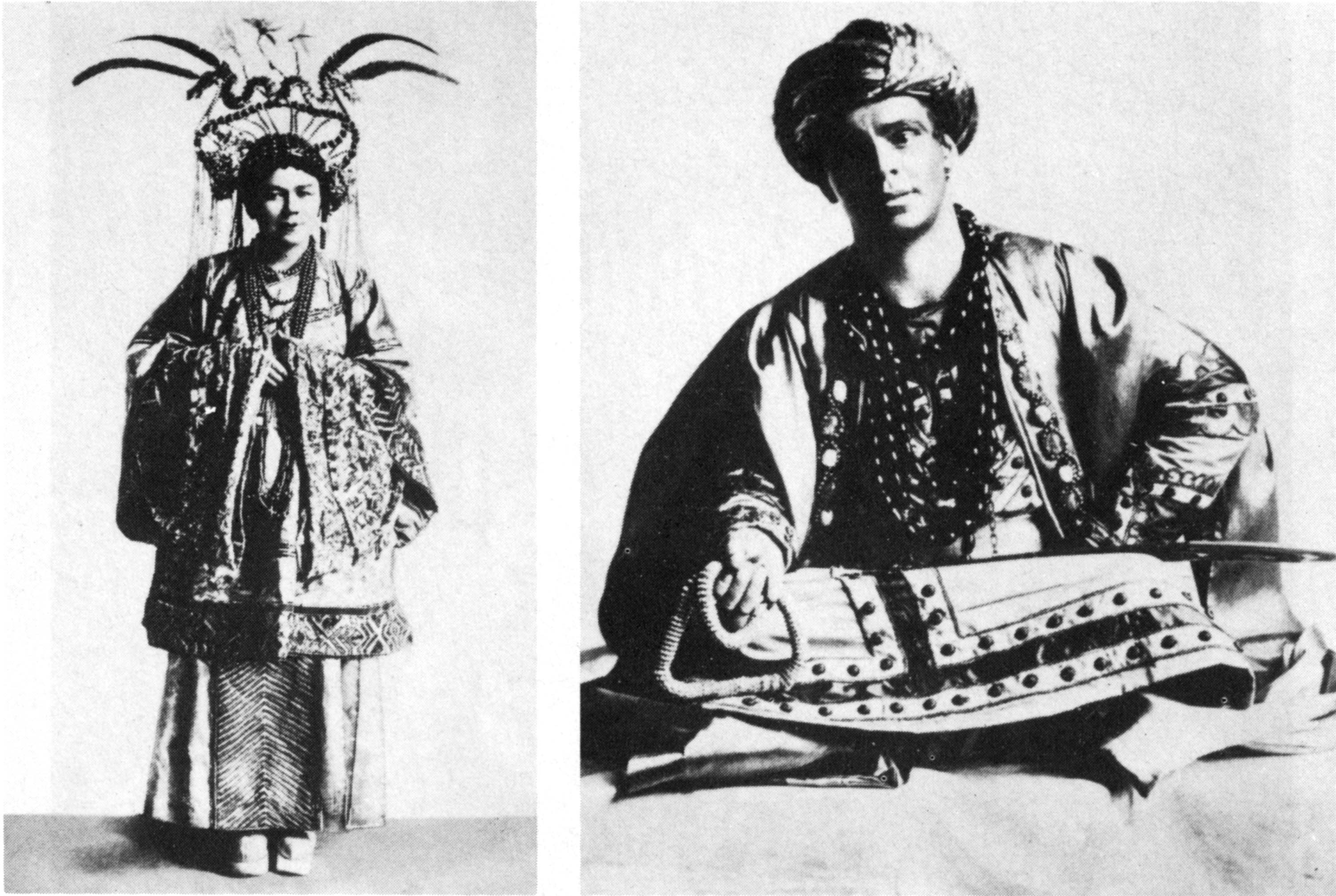 Gertud Eysoldt as Turandot; Alexander Moissi as Calaf. Photos from the program book for Max Reinhardt's 1911 production of Gozzi's Turandot with incidental music by Ferruccio Busoni.